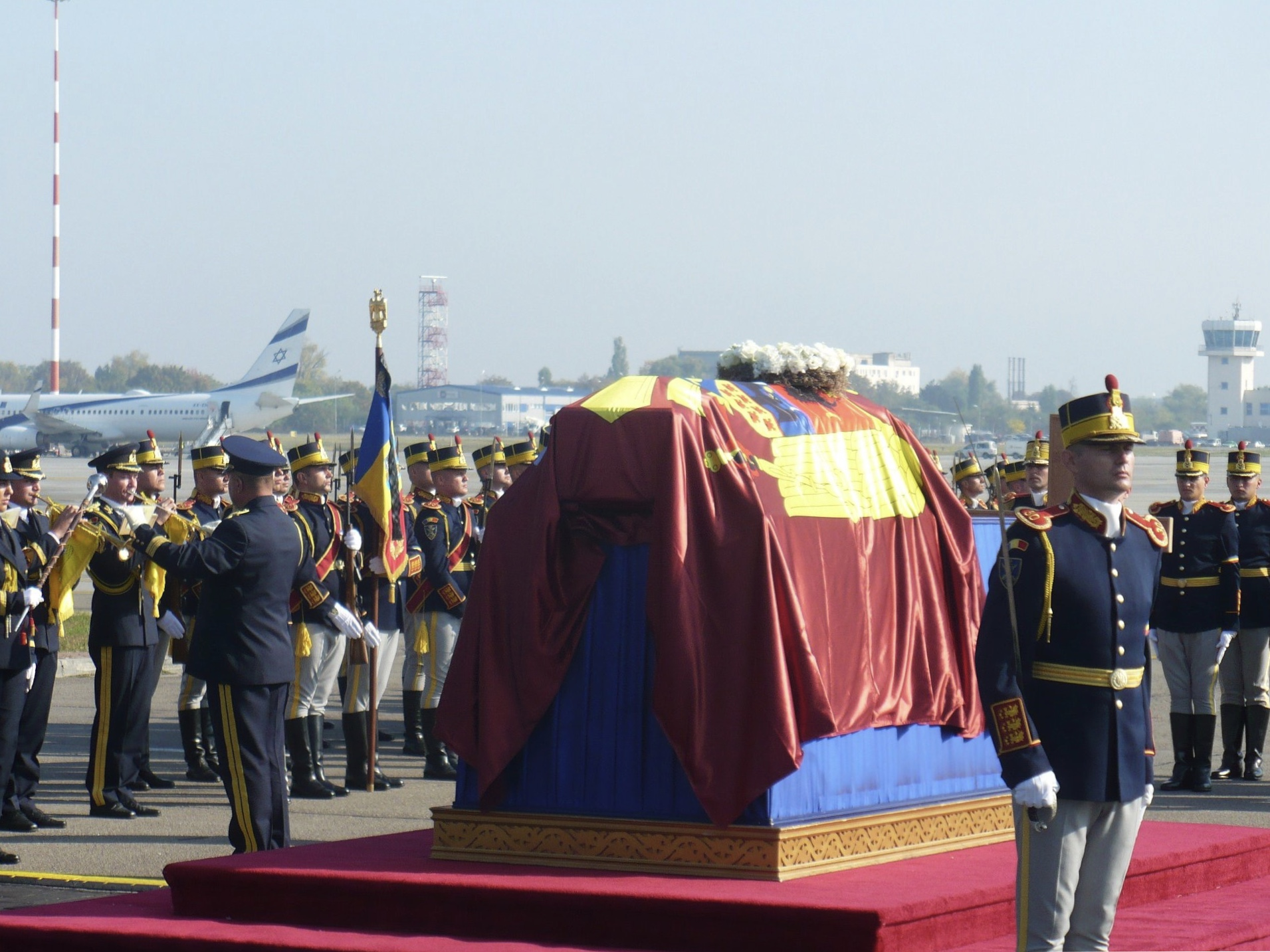 Repatriation of Queen Helen to Romania from Switzerland for a state funeral and reburial at the Royal Crypt